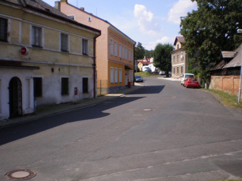 Citice, Sokolov District, Czech Republic.